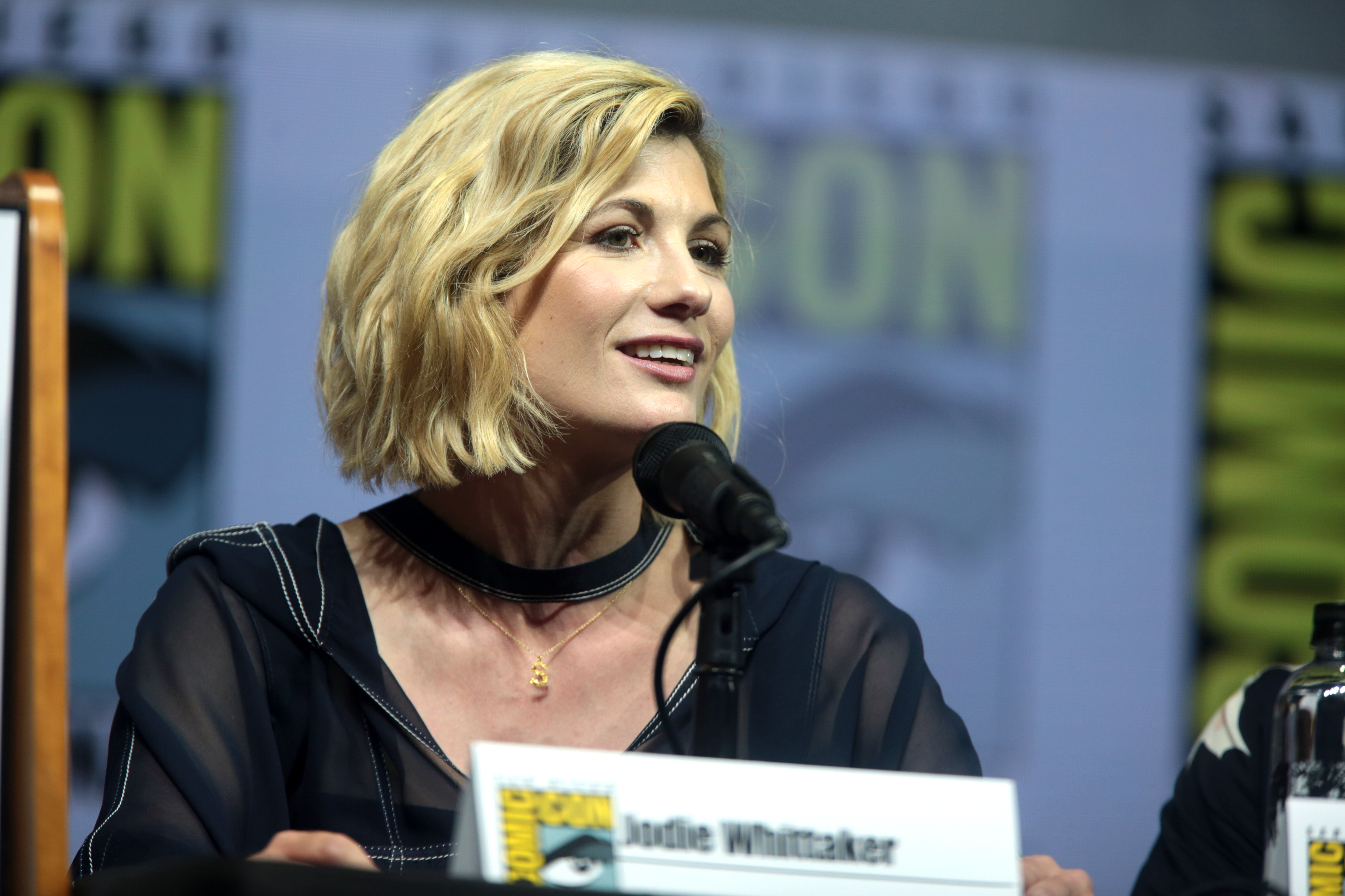 Jodie Whittaker speaking at the 2018 San Diego Comic Con International, for "Doctor Who", at the San Diego Convention Center in San Diego, California.